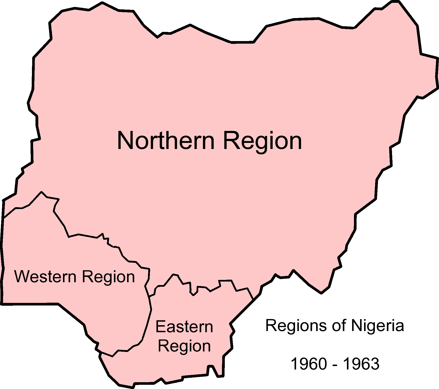 Map of Nigerian regions, 1960-1963. Info from and